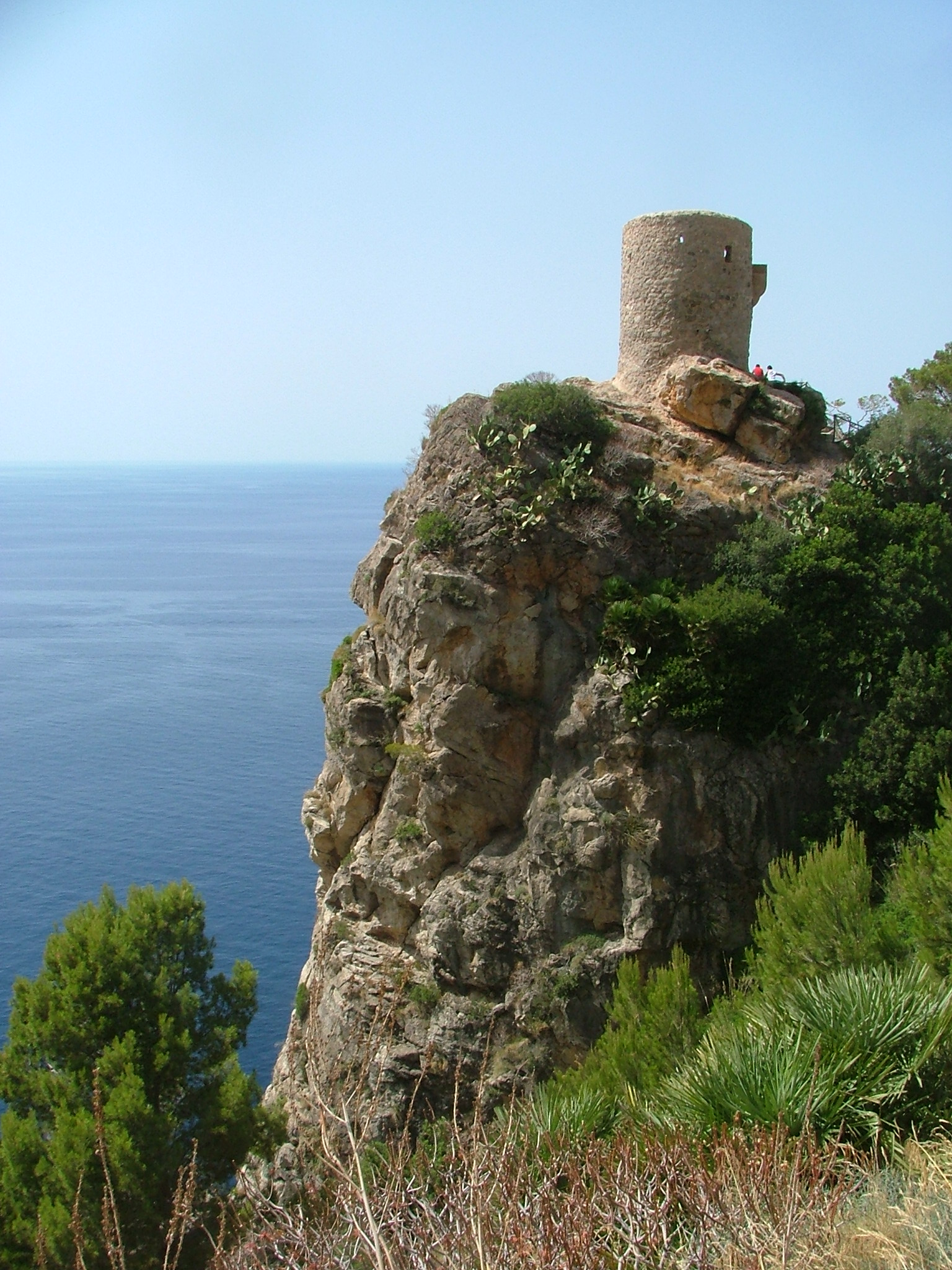 View form Torre del Verger, Banyalbufar, Mallorca, Spain